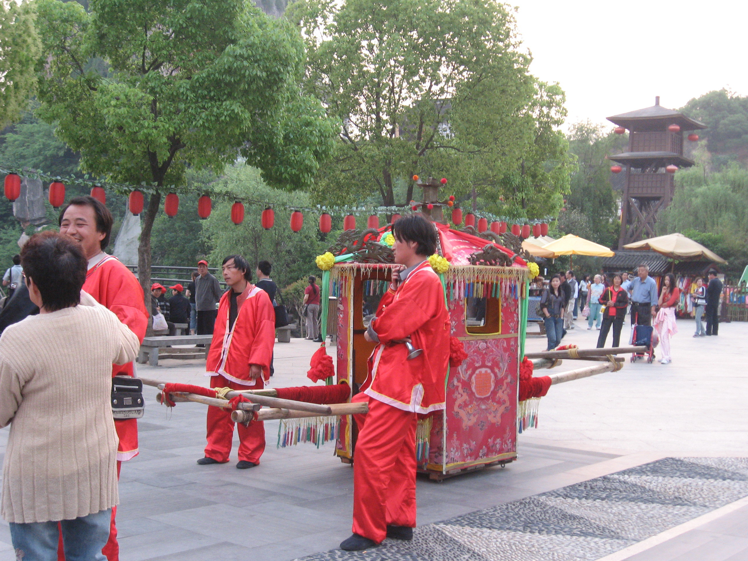 Tourists' Litter (vehicle) in China